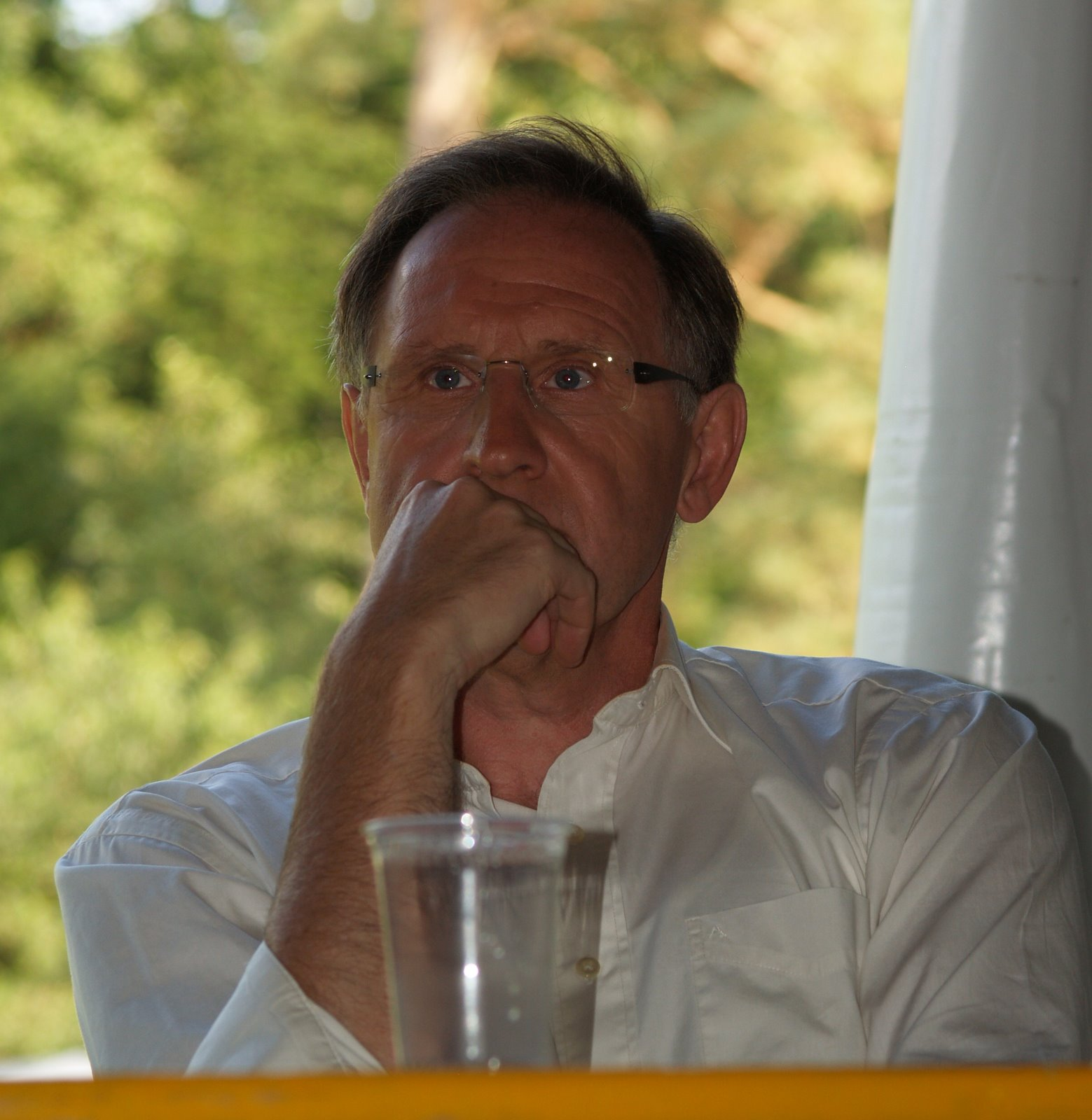 University of Amsterdam professor Jos de Beus